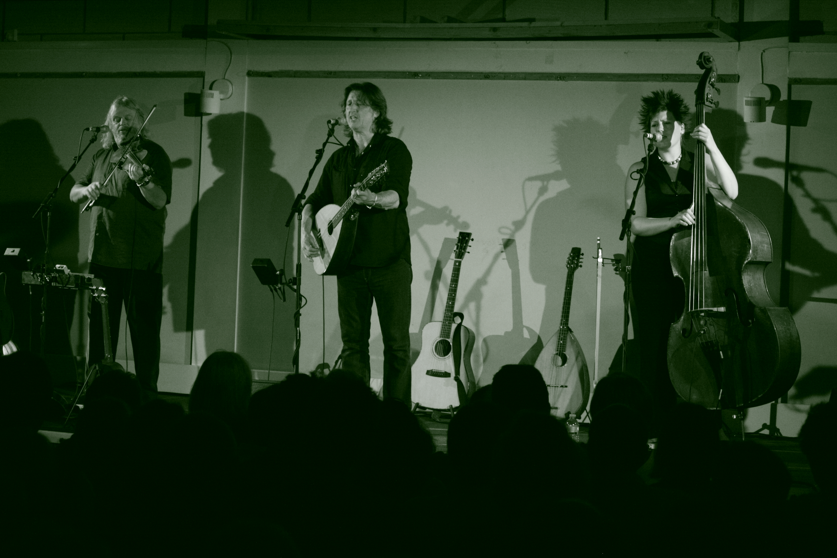 Show of Hands duo with Miranda Sykes on Double bass